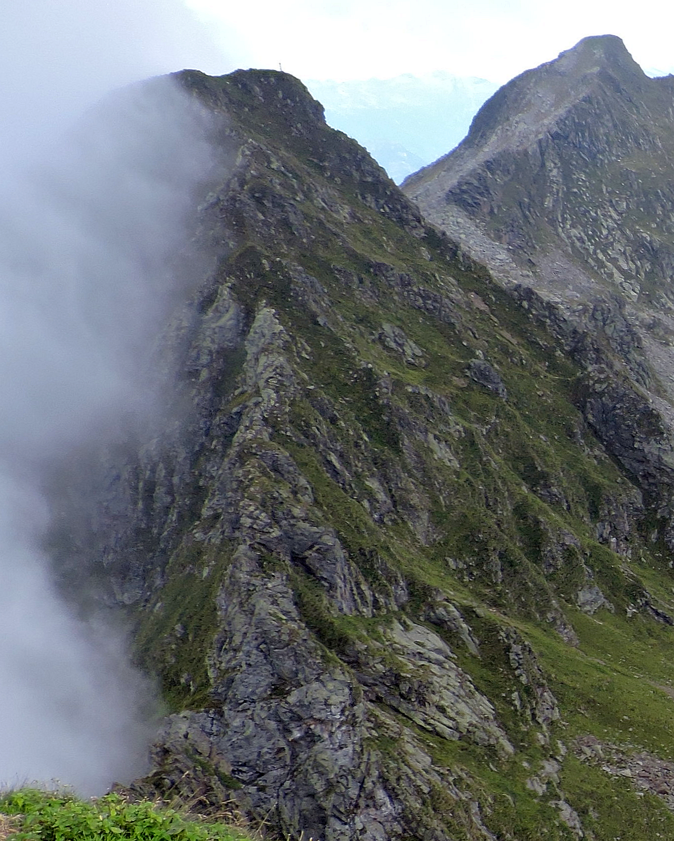 Cima Lago (Pennine Alps) from the Altemberg, on the right mount Capezzone